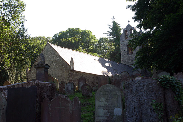 Kirk Braddan Old Church. The mother church of Douglas set in a beautiful wooded valley by the River Dhoo. The churchyard is full of Georgian head-stones and dominated by an obelisk designed by Steuart to Lord Henry Murray. Tower, 1773. Interior high pews, galleries, clear glass and monuments on walls.[JB] Built 1773 following presentations that the roof and gable of the previous church were unsafe and also after complaints that the previous church was too small. The received wisdom is that the old church was demolished and the new built from the reclaimed rubble though with quoins of Foxdale granite. However recent surveys by Mr F. Cowin have convinced him that although the east end was demolished and rebuilt and the tower added, the remaining walls are mostly the original dating from the twelfth century. Following the precedent of St Marks (b 1772) the four corners were marked by pinnacles. Unlike many other island churches it was probably never whitewashed.